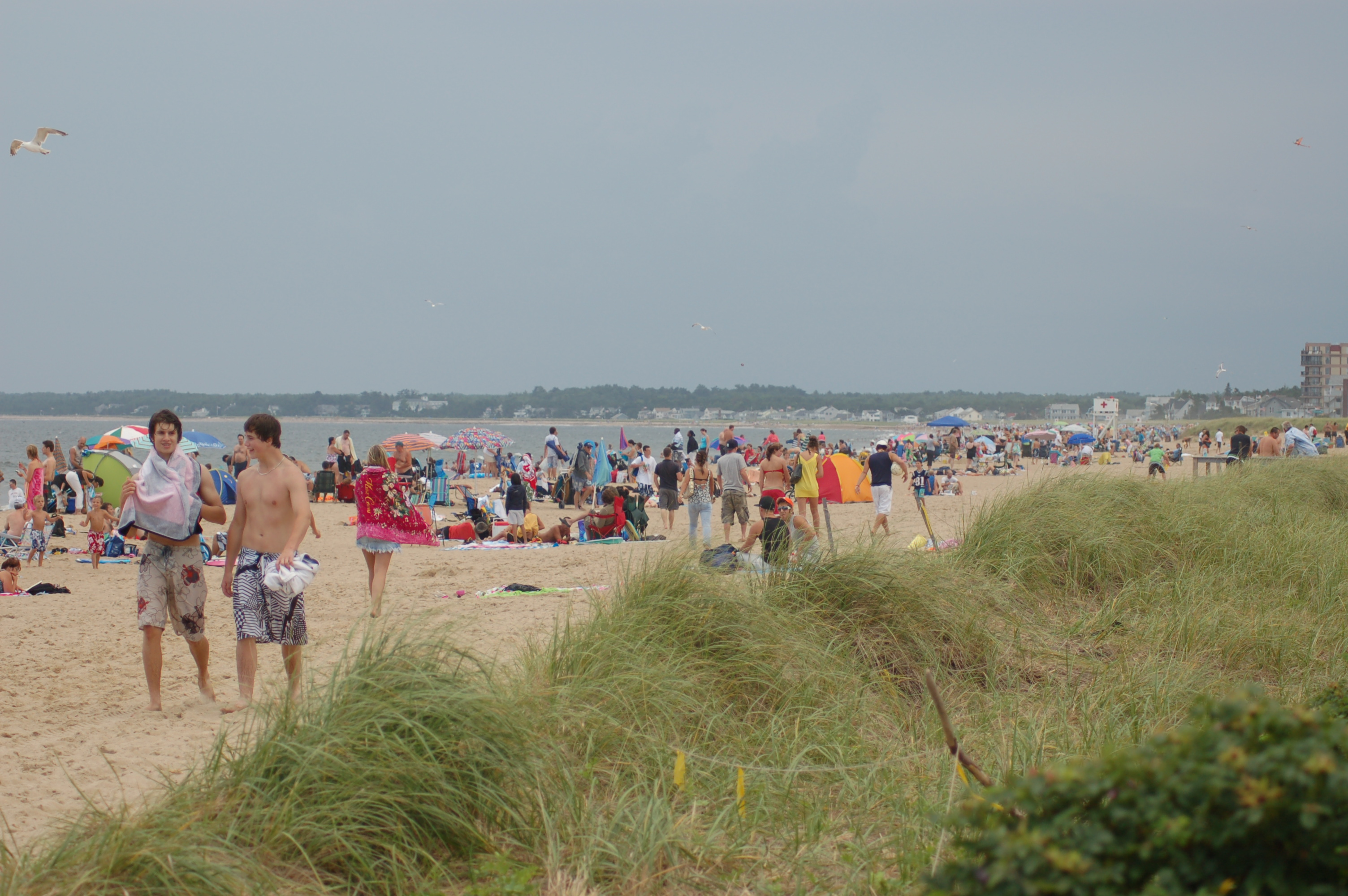 The beach at Ocean Park (Old Orchard Beach), Maine, during the peak summer season.